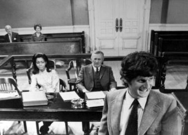 Publicity photo from the television show The Young Lawyers. Shown seated are Judy Pace and Lee J. Cobb. Standing in foreground is Zalman King.